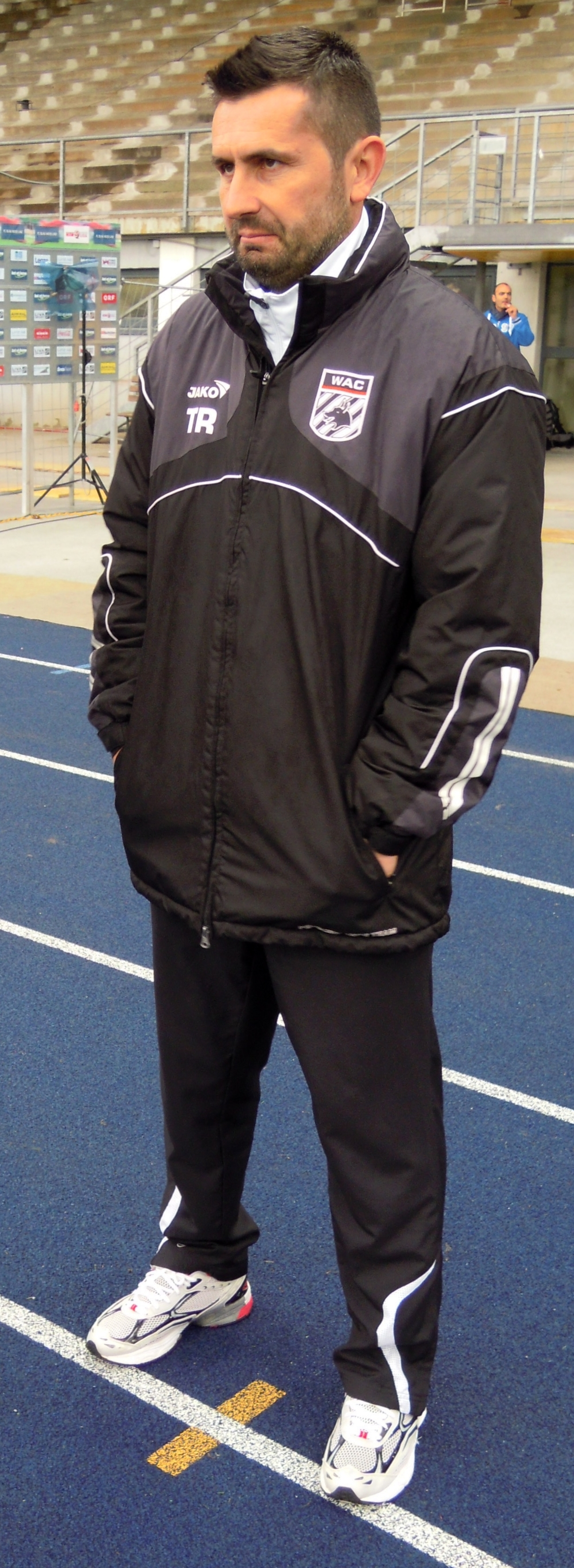 Nenad Bjelica as manager of Wolfsberger AC just before the "Erste Liga"-match FC Blau-Weiss Linz versus Wolfsberger AC on 20 April 2012 at the stadium of Linz